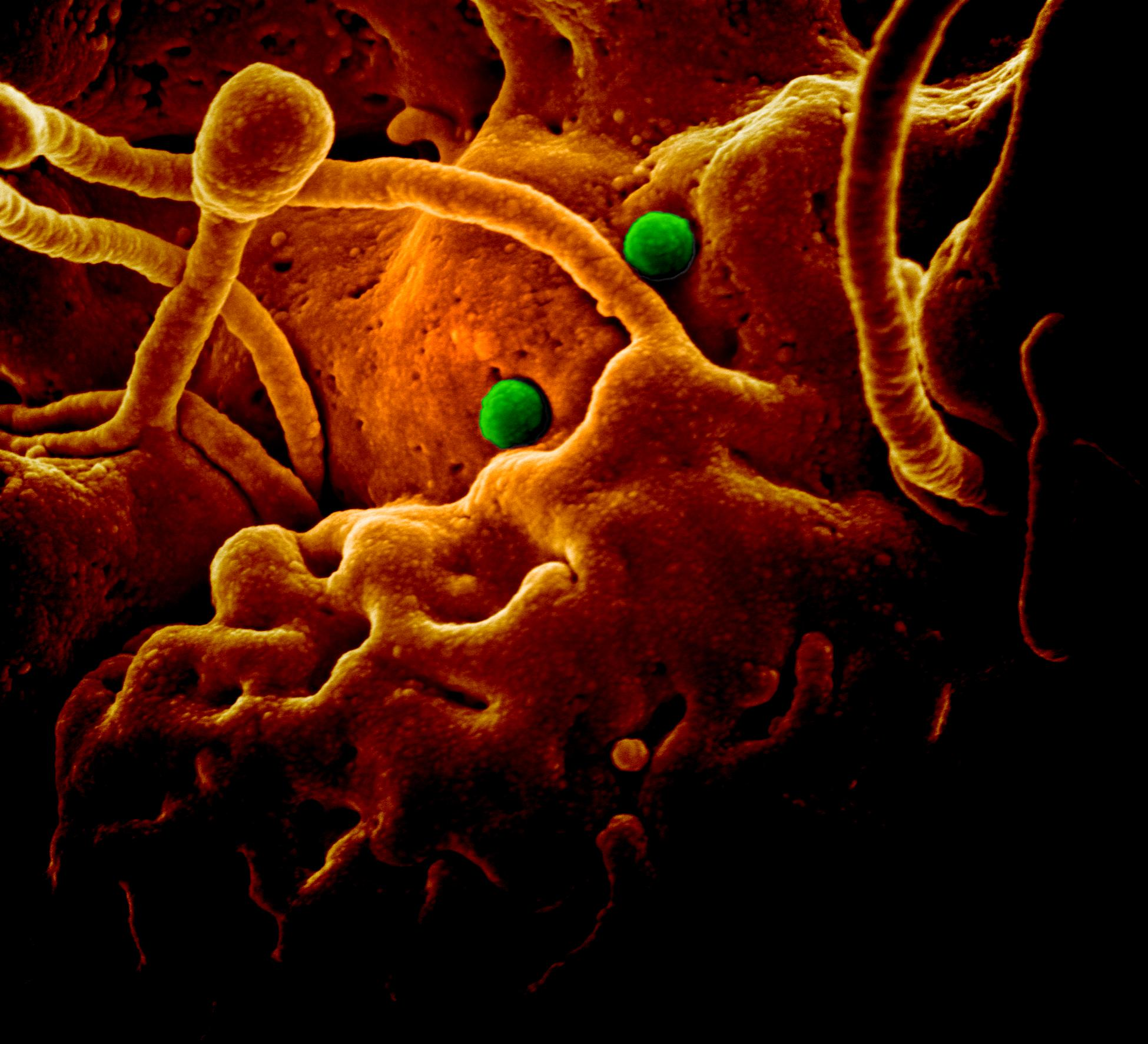 MERS-CoV particles on camel epithelial cells. Credit: NIAID in collaboration with Colorado State University